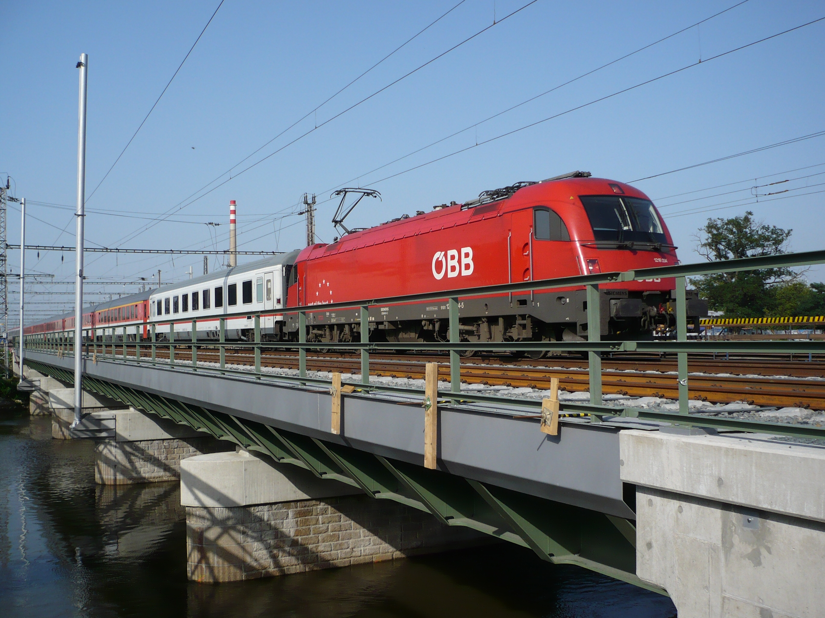 1216 234 with train to Vienna on a bridge over Dyje in Břeclav